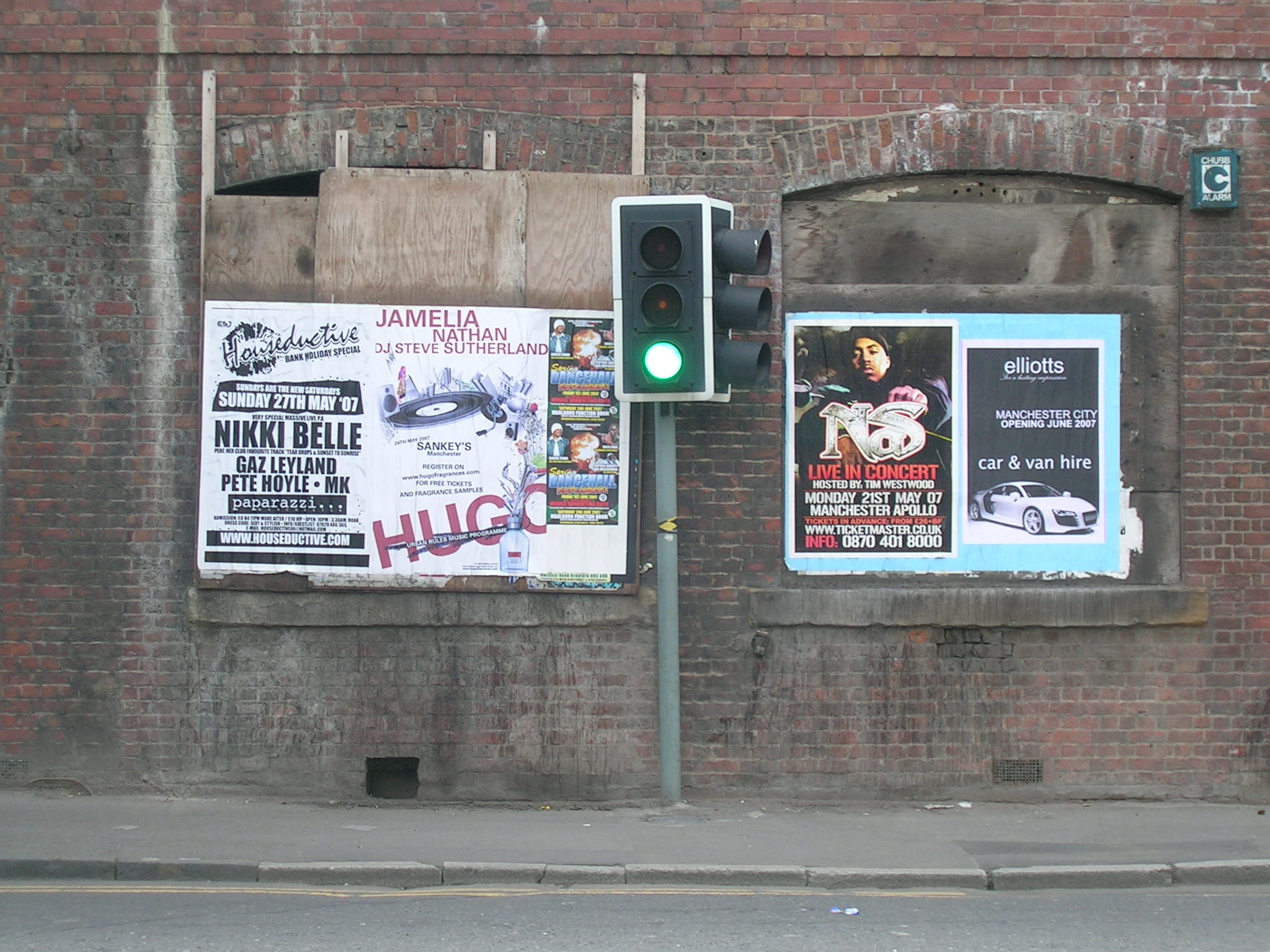 Flyposed posters in Manchester city.